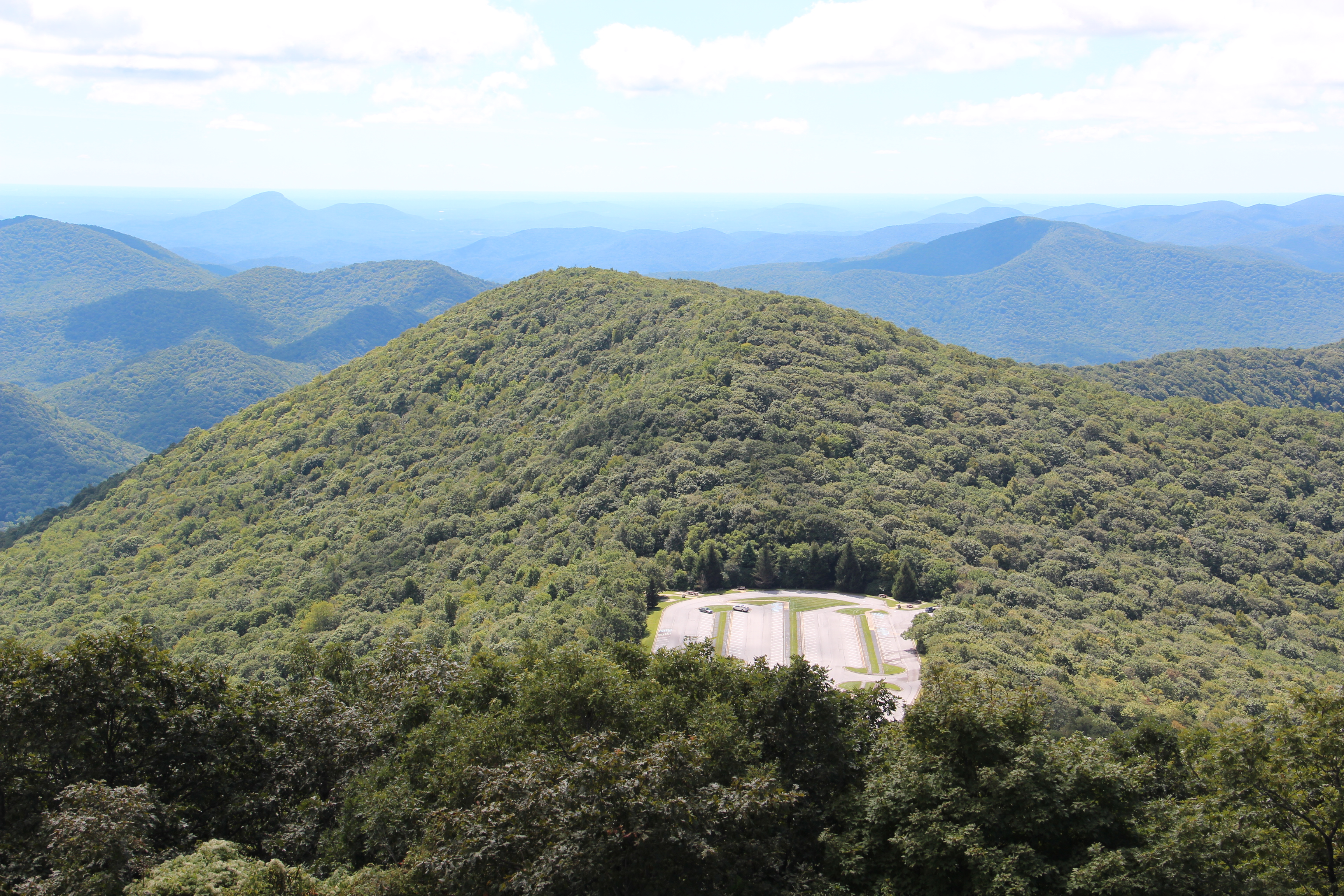 Viewed from Brasstown Bald